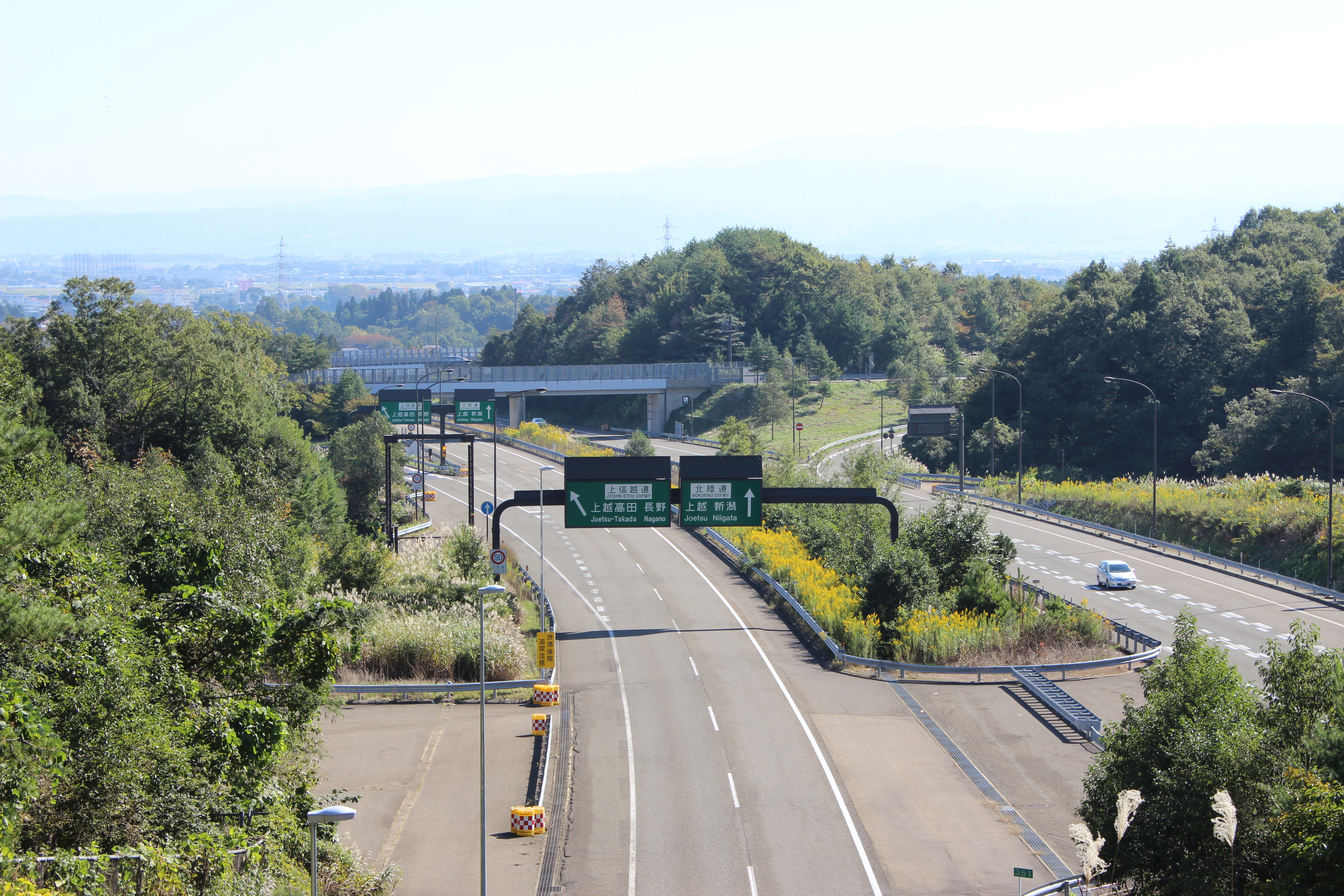 Joetsu Junction seen from Toyama side